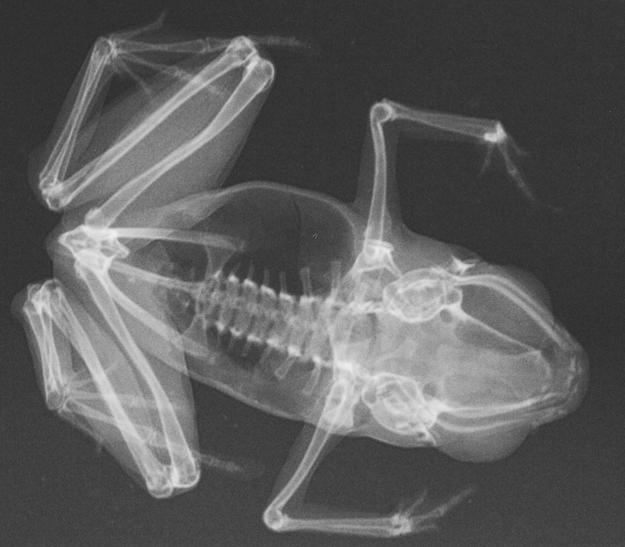 X-ray of a paratype of Paedophryne swiftorum (BPBM 31886)